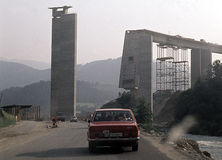 Tauern Superhighway, collapsed Bridge during construction (Accident 16 May 1975), Austria.